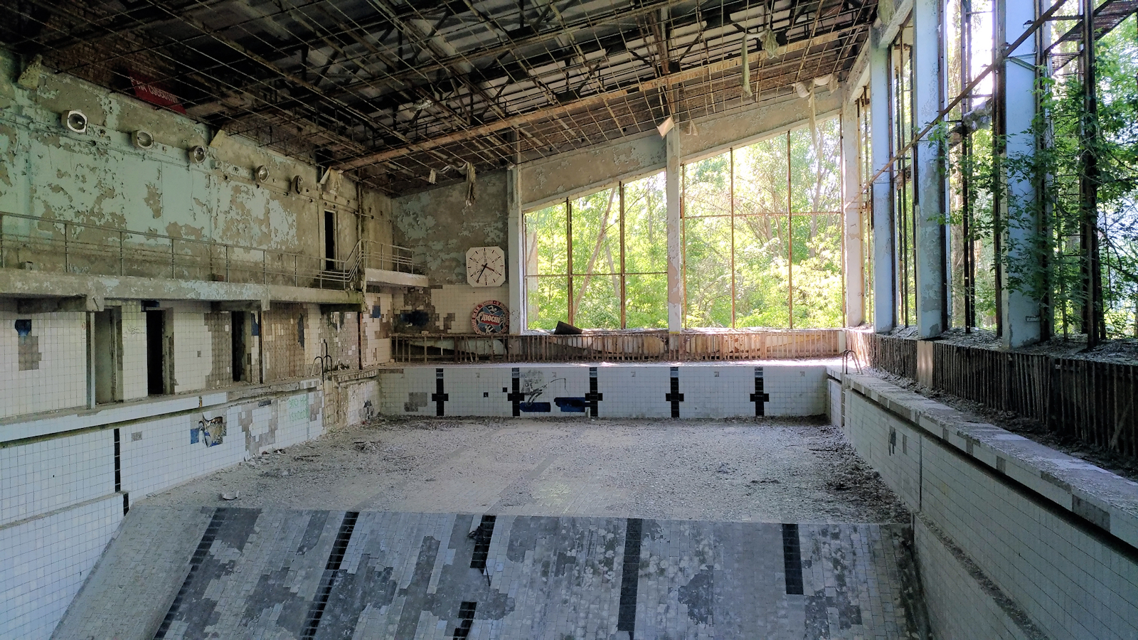 Pripyat in June 2019: Swimming pool Lazurnyj